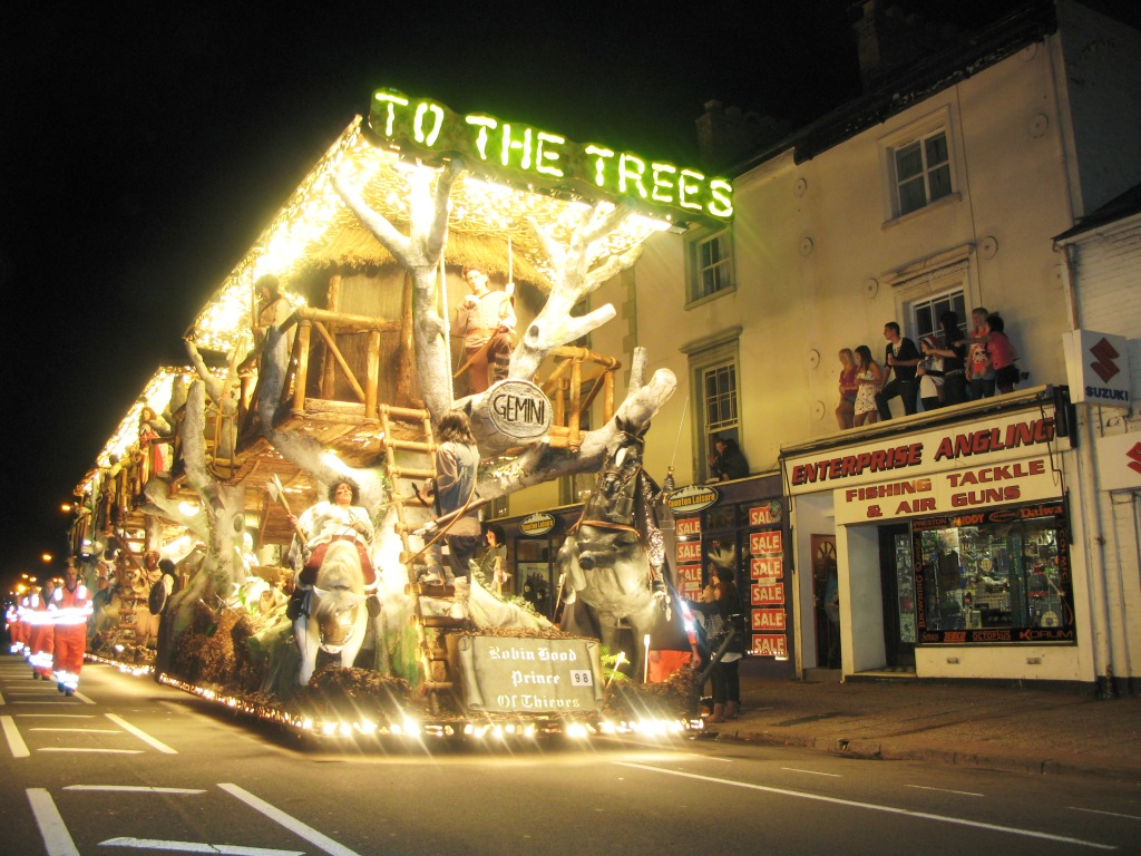 Gemini Carnival Club's To The Trees entry in the 2009 Taunton Carnival had Robin Hood as its theme.